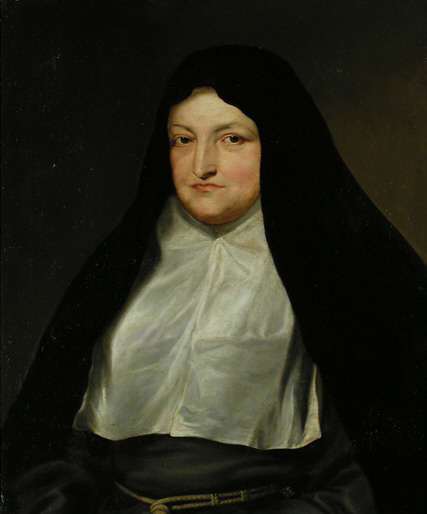 Isabella Clara Eugenia as nun